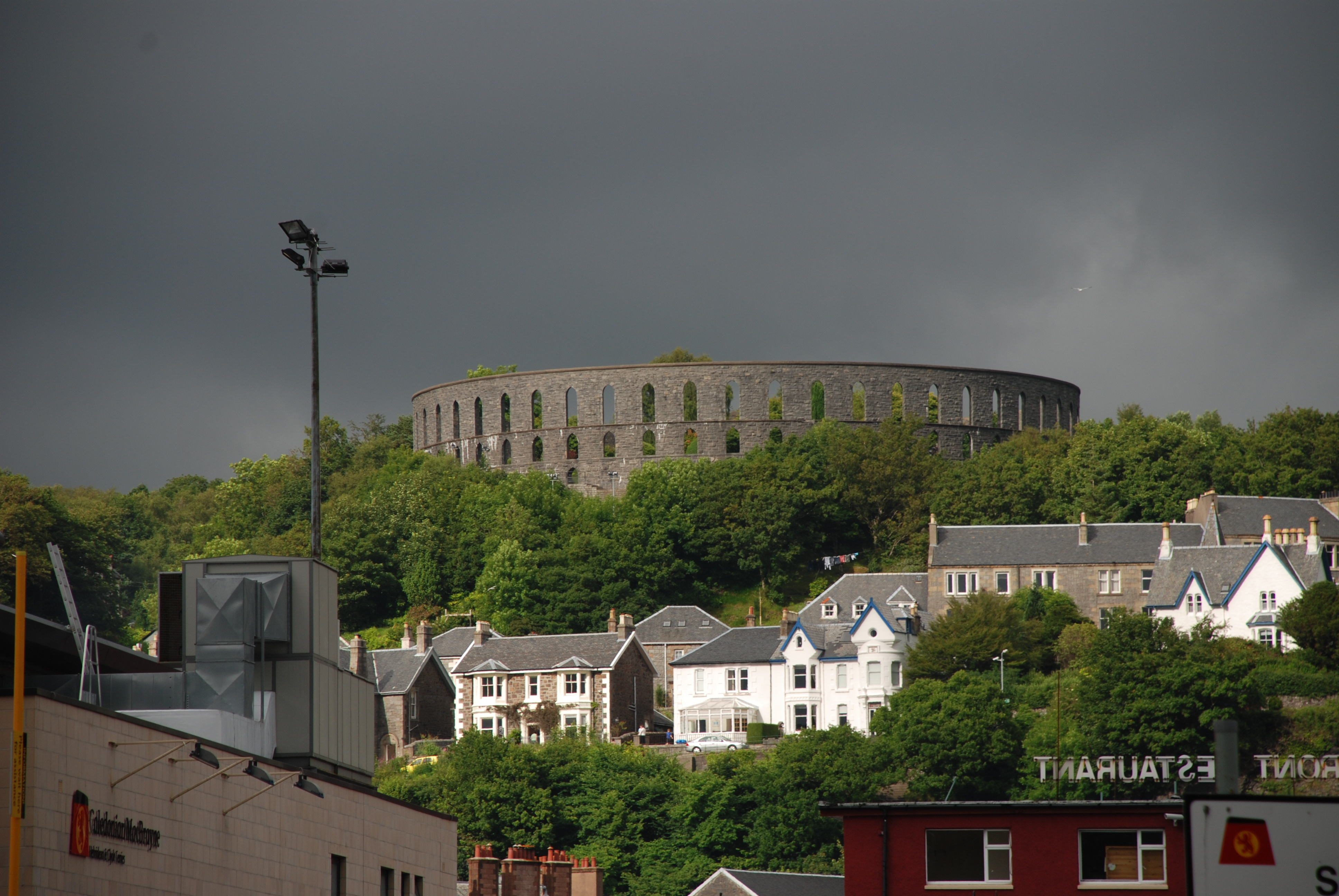 McCaig's Tower from the Oban to Craignure ferry